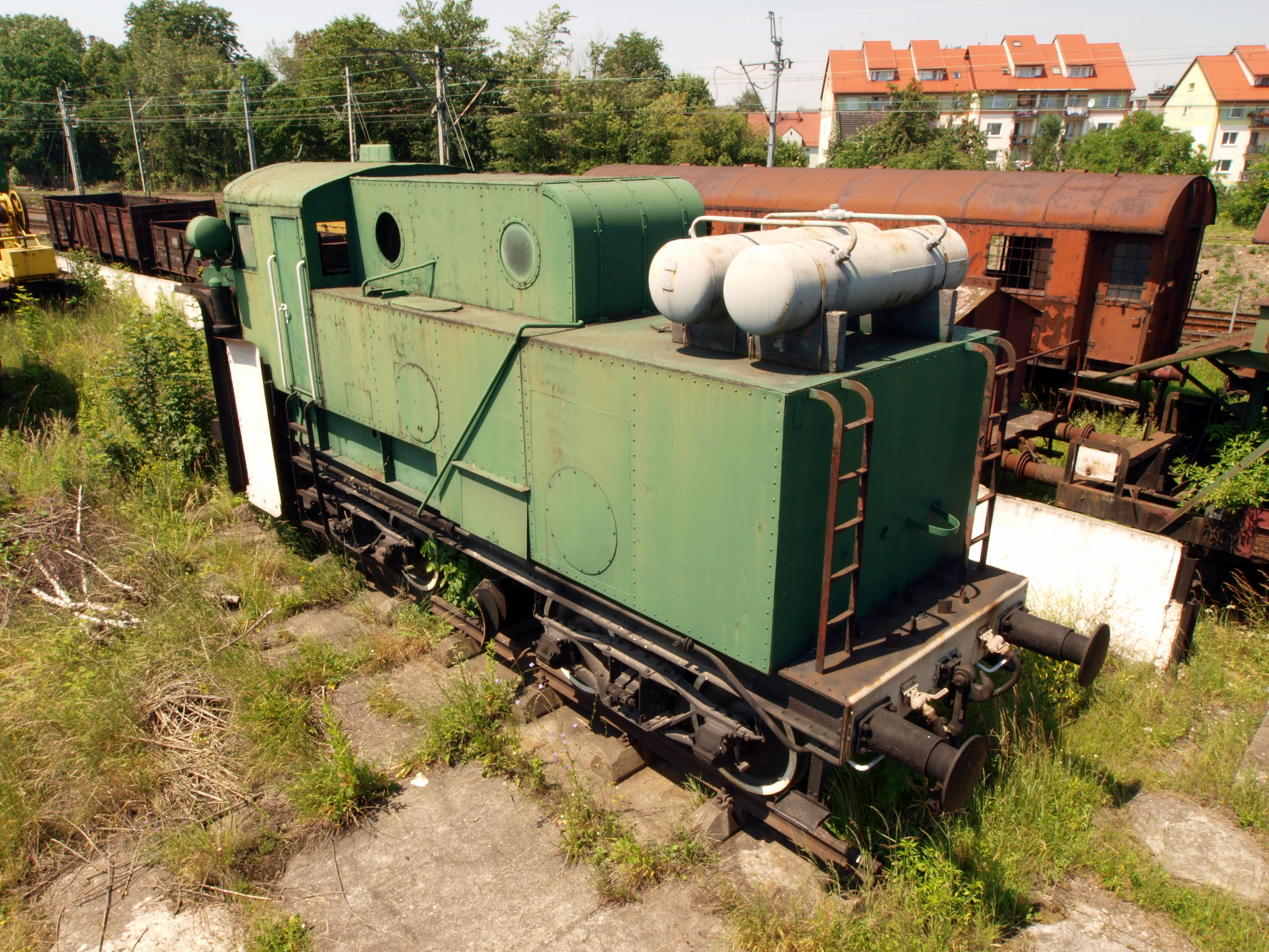 Green snow plow locomotive at the Museum of Industry and Railway in Lower Silesia.